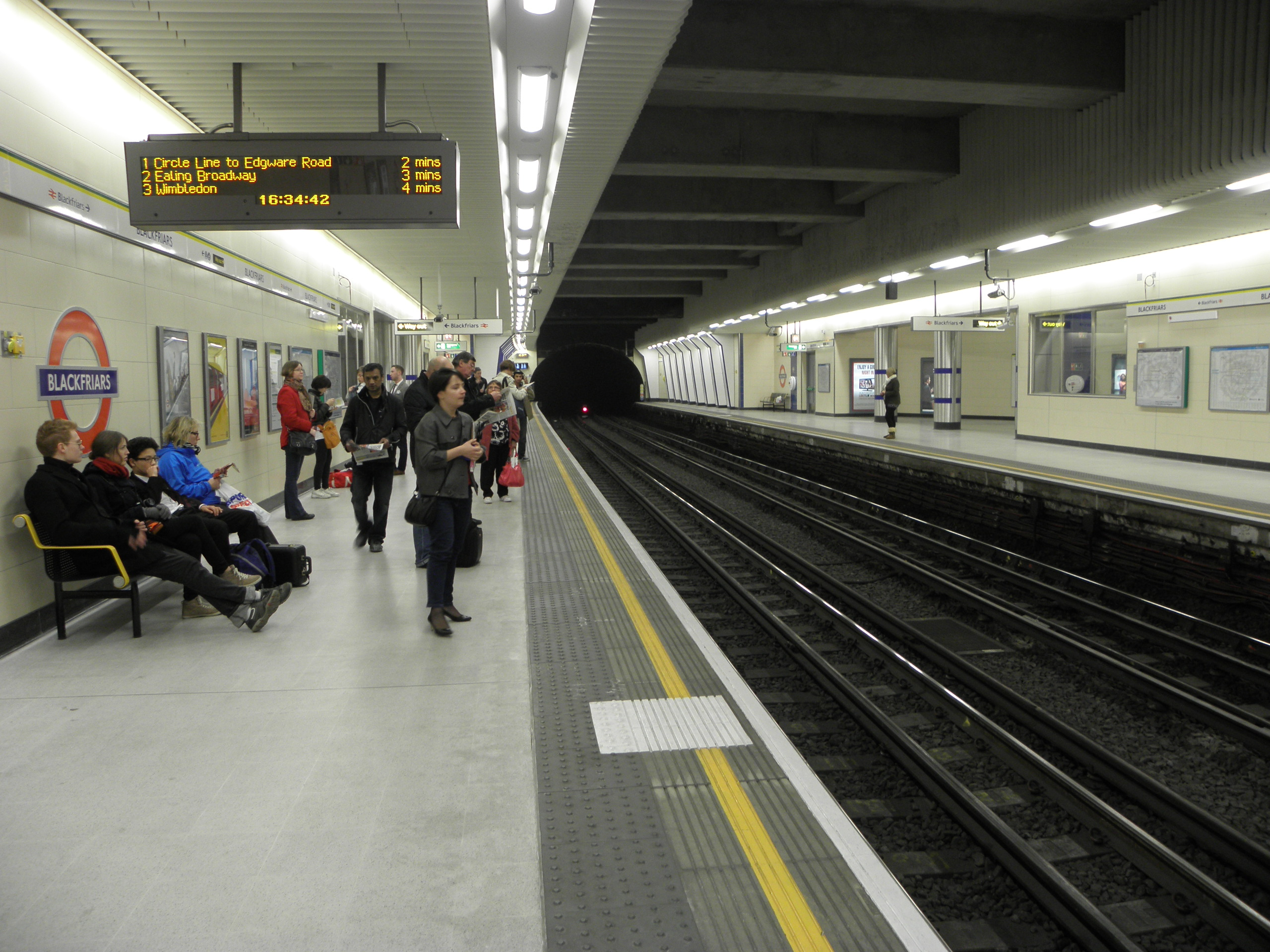 Blackfriars station Circle/District line platforms looking west. The refurbished platforms opened in February 2012